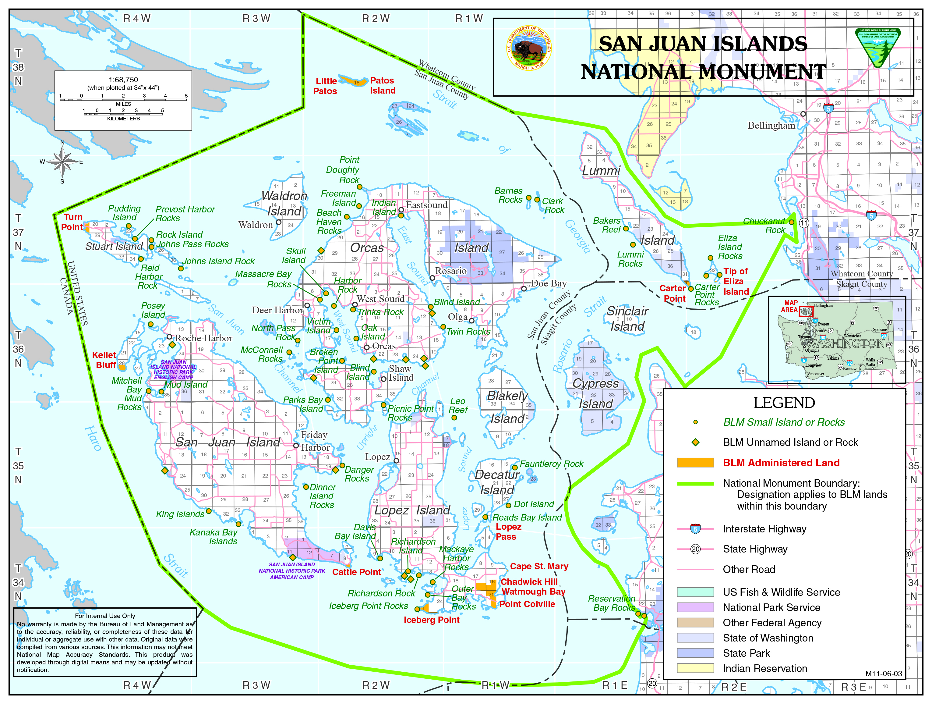 The amazing San Juan Islands of Washington State offer a plethora of incredible sights, exciting recreation opportunities, and memories for a lifetime. Situated in the northern reaches of Washington State's Puget Sound, the San Juan Islands are a uniquely beautiful archipelago of over 450 islands, rocks, and pinnacles. The new San Juan Islands National Monument encompasses approximately 1,000 acres of land spread across many of these rocks and islands and managed by the Department of the Interior's Bureau of Land Management. Drawing visitors from around the world, this is a landscape of unmatched contrasts, where forests seem to spring from gray rock and distant, snow-capped peaks provide the backdrop for sandy beaches. The San Juan Islands National Monument is a trove of scientific and historic treasures, a refuge for an array of wildlife, and a classroom for generations of Americans. On March 25, 2013, President Obama signed a proclamation to designate the San Juan Islands National Monument. The proclamation states that, "The protection of these lands in the San Juan Islands will maintain their historical and cultural significance and enhance their unique and varied natural and scientific resources, for the benefit of all Americans." To learn more about your public lands on the San Juans and to plan a warm weather visit to this uniquely beautiful locale, visit: Contact: San Juan Islands National Monument 37 Washburn Place Lopez Island, WA 98261 360-468-3754